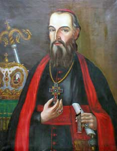 Moise Dragoş (1726–1787), Bishop of the Diocese of Oradea Mare of the Romanian Greek Catholic Church from 1777 to 1787